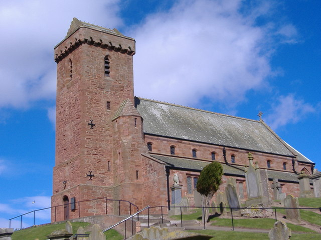 St Vigeans Parish Church, also home to a museum